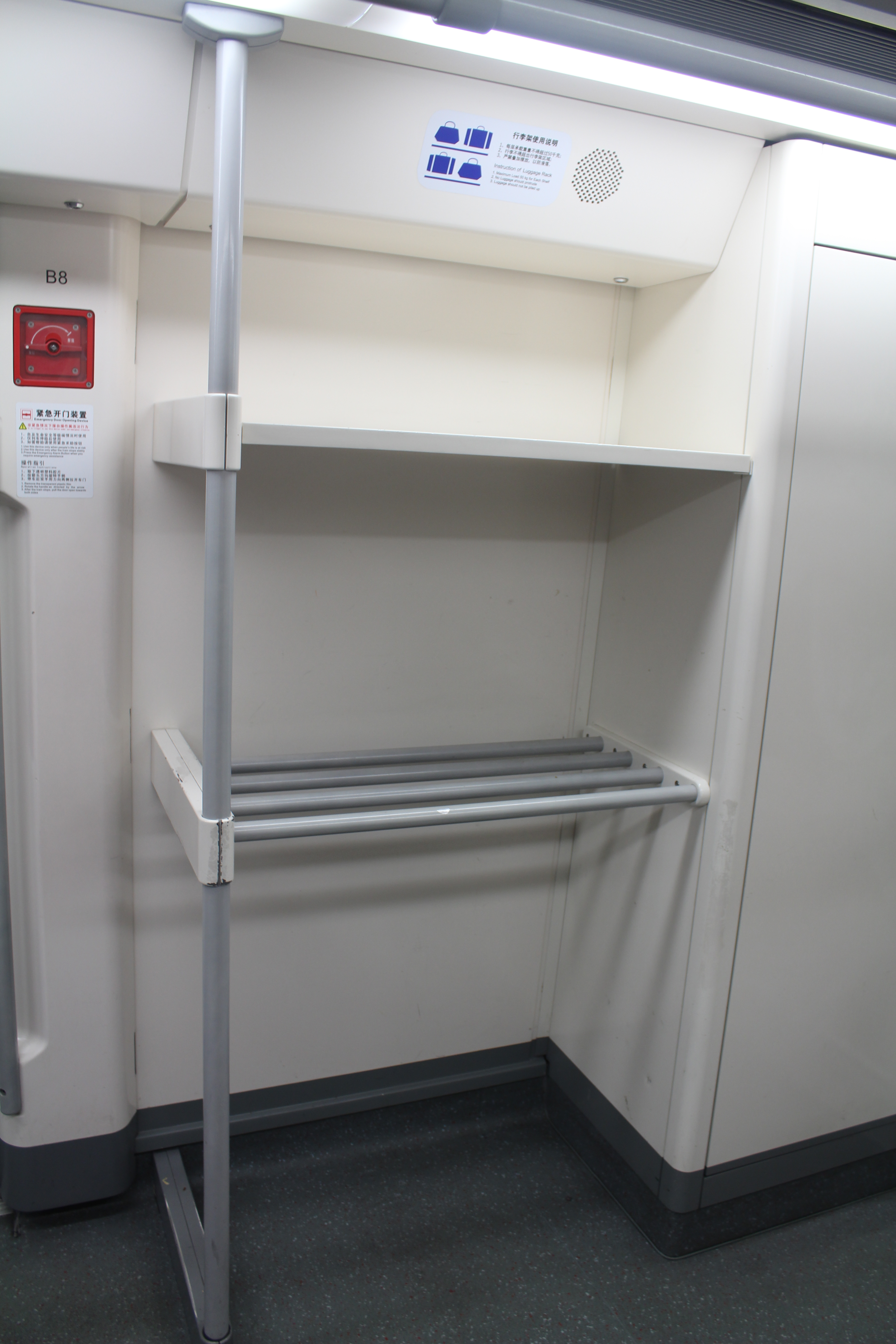 Guangzhou Metro L3-CSR B2 Train for inside trunk space